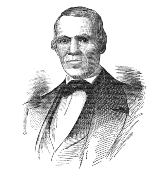 From Page 21 of the above book Scanned from Google Books: Title History of William Jewell College: Liberty, Clay County, Missouri Authors William Jewell College, James Gregory Clark Publisher Central Baptist Print, 1893 Original from the University of Michigan Digitized Jan 15, 2009 Length 278 pages